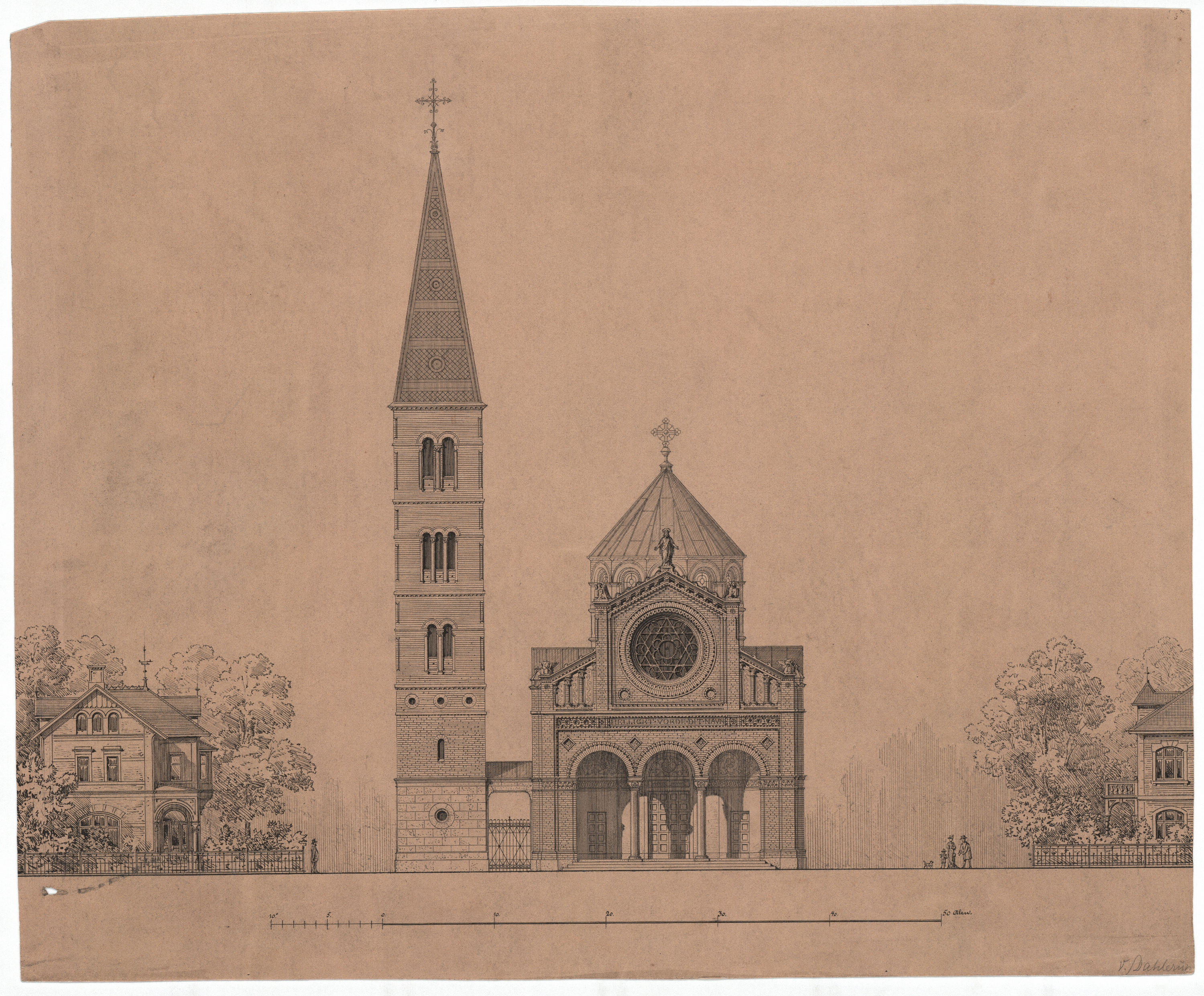 Tendering of the Jesus Church in Valby, Copenhagen, Denmark.